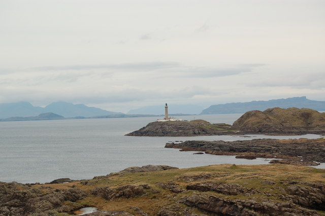 Ardnamurchan Lighthouse and the Small Isles Rum, Muck, Eigg and the Isle of Skye in the distance, with the Ardnamurchan Lighthouse.